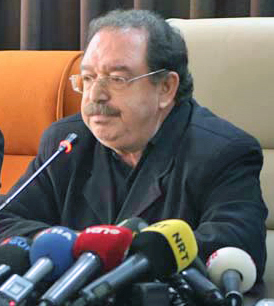 DTK, HDK, DBP, HDP administrators